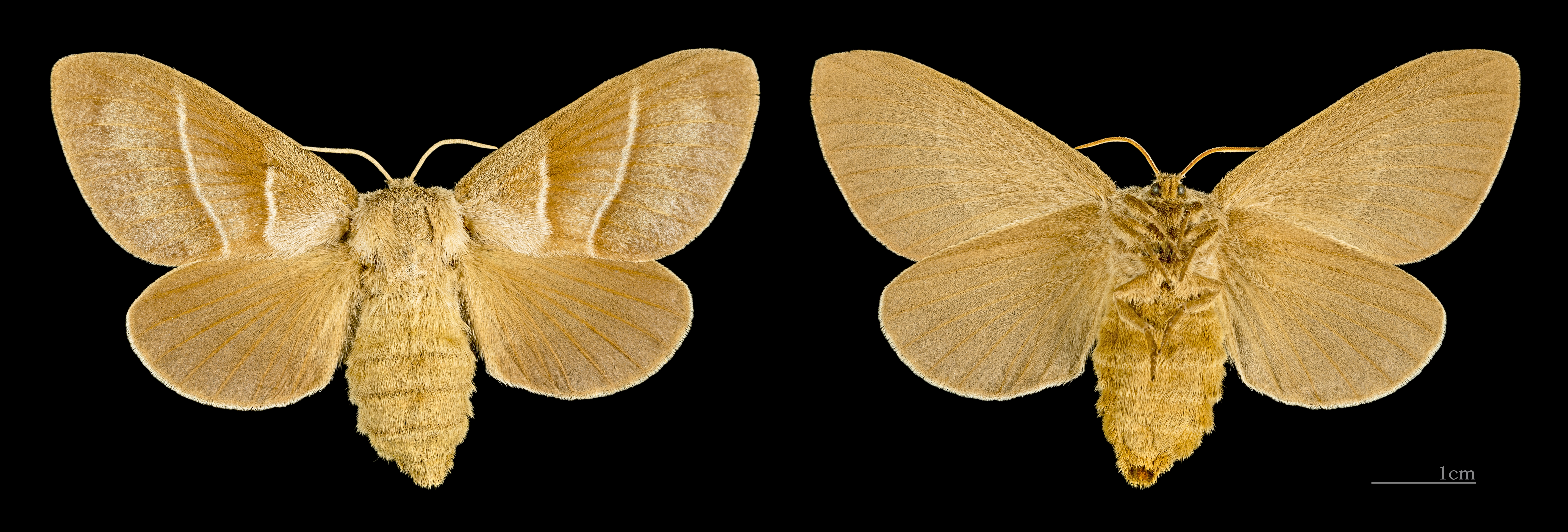 Fox moth - Two views of same specimen